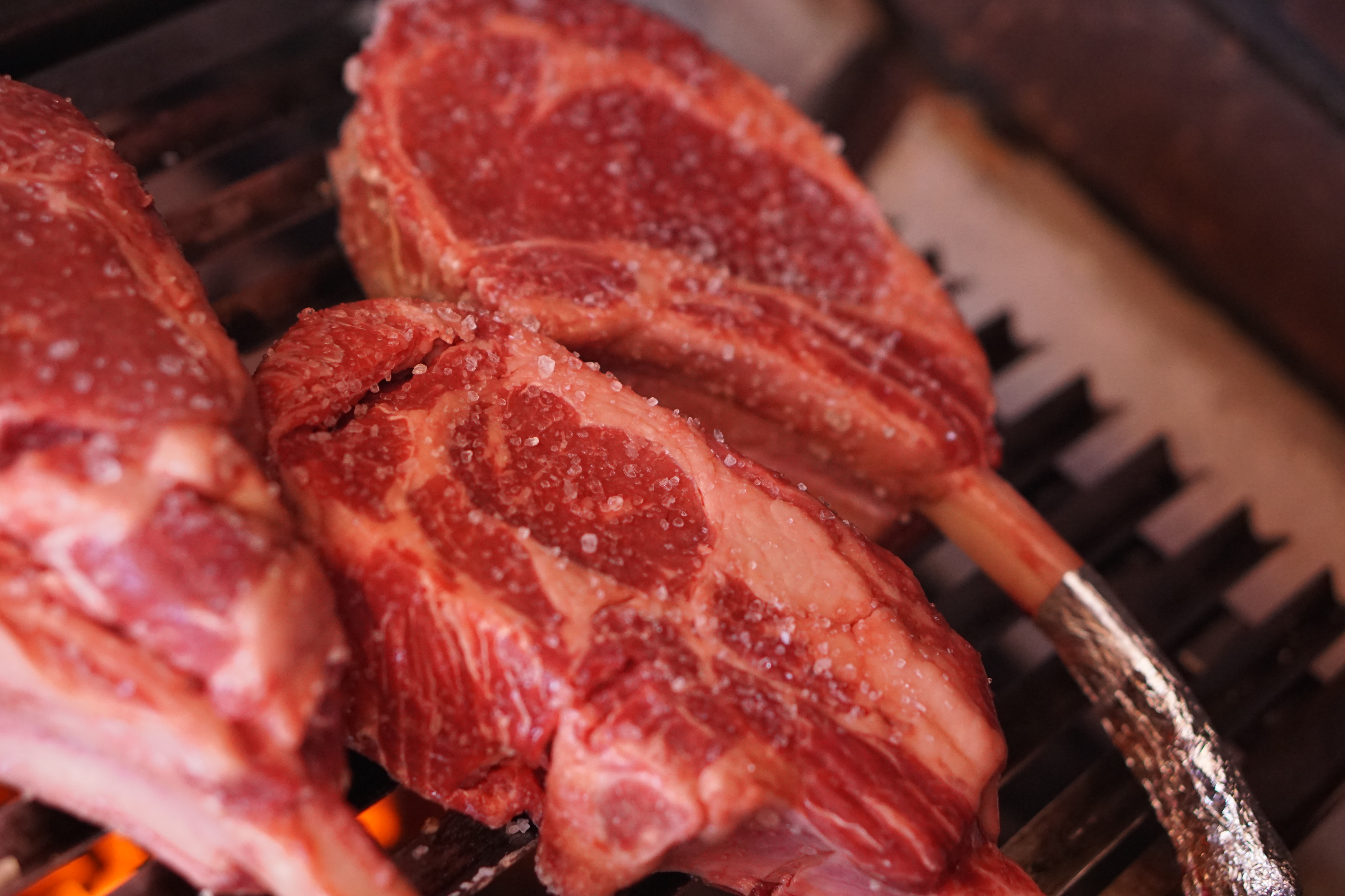 Churrasco